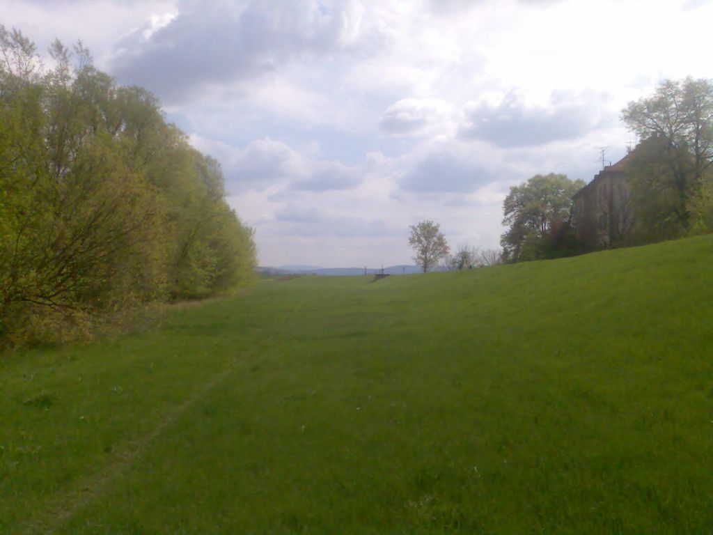 Place of former Ipoly bridge near Pastovce